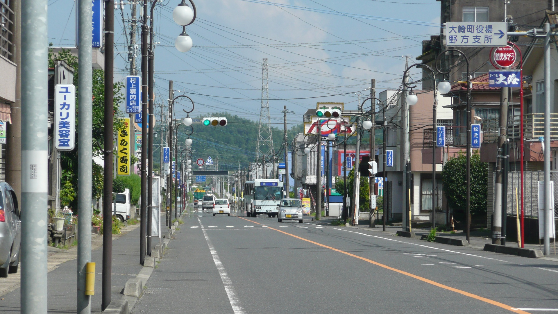 National Route 269 (Nogata, Osaki Town, Kagoshima, Japan)